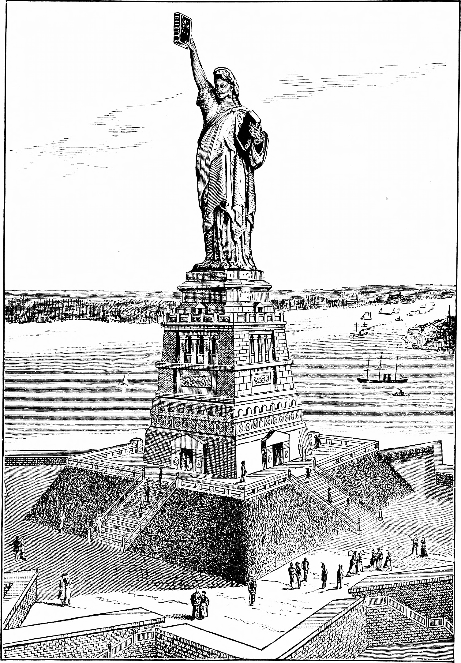 ENLIGHTENING THE RACE Identifier: Title: Afro-American encyclopaedia, or, The thoughts, doings, and sayings of the race (electronic resource): embracing addresses, lectures, biographical sketches, sermons, poems, names of universities, colleges, seminaries, newspapers, books, and a history of the denominations, giving the numerical strength of each : in fact, it teaches every subject of interest to the colored people, as discussed by more than one hundred of their wisest and best men and women : illustrated with beautiful half-tone engravings Year: 1895 (1890s) Authors: Haley, James T Washington, Booker T., 1856-1915. Mind and matter Settle, William B., former owner. GEU Woodson, Carter Godwin, 1875-1950, former owner. GEU Association for the Study of African-American Life and History, former owner. GEU Subjects: African Americans African Americans African Americans Publisher: Nashville, Tenn. : Haley & Florida Text Appearing Before Image: ' Text Appearing After Image: ENLIGHTENING THE RACE. f\fro-f\r(\^r\eaT) fyeyelopaedia; OR, THE THOUGHTS, DOINGS, AND SAYINGS OF THE RACE, ■* EMBRACING *■ Addresses, Lectures, Biographical Sketches, Sermons,Poems, Names of Universities, Colleges, Seminaries,Newspapers, Books, and a History of the Denomi-nations, giving the Numerical Strength of Bach.In fact, it teaches every subject of interestto the colored people, as discussed by-more than one hundred of theirwisest and best men and women. ILLUSTRATED WITH BEAUTIFUL HALF-TONE ENGRAVINGS. Compiled and Arranged by James T. Haley. SOLD BY SUBSCRIPTION EXCLUSIVELY. No man has a right to bring up his children without surrounding them with good booksif he has the means to buy them. A library is one of the necessities of life. A book isbetter for weariness than sleep; better for cheerfulness than wine; it is often a better phy-sician than a doctor, and a better preacher than a minister.—Beecher. NASHVILLE, TENN. :HALEY & FLORIDA. 1895. Entered according to